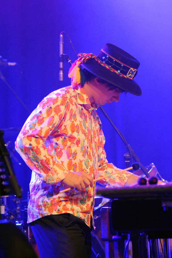 Polish contemporary music group Kwadrofonik performing at CrosCultureFestival in Warszawa, September 16, 2009